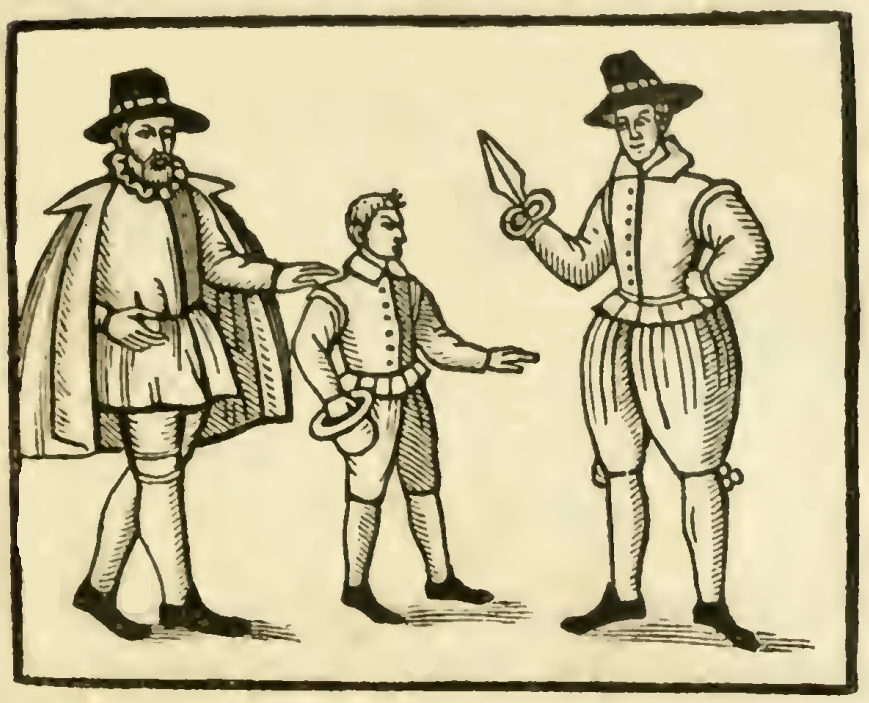 Title page of The Italian Taylor and his Boy by Robert Armin (1609)